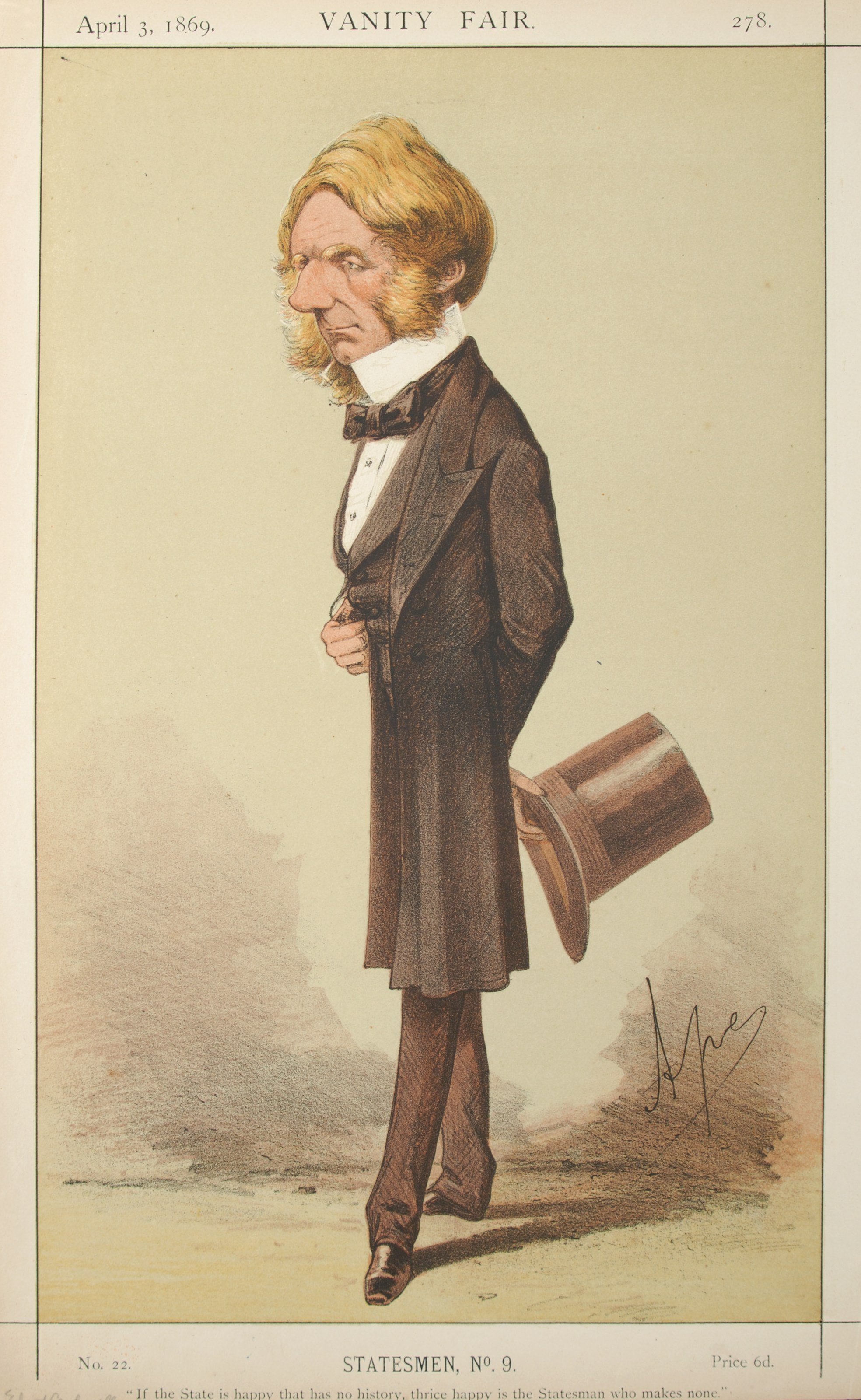 Statesmen No.9: Caricature of The Rt Hon Edward Cardwell. Caption reads: "If the State is happy that has no history, thrice happy is the Statesman who makes none."